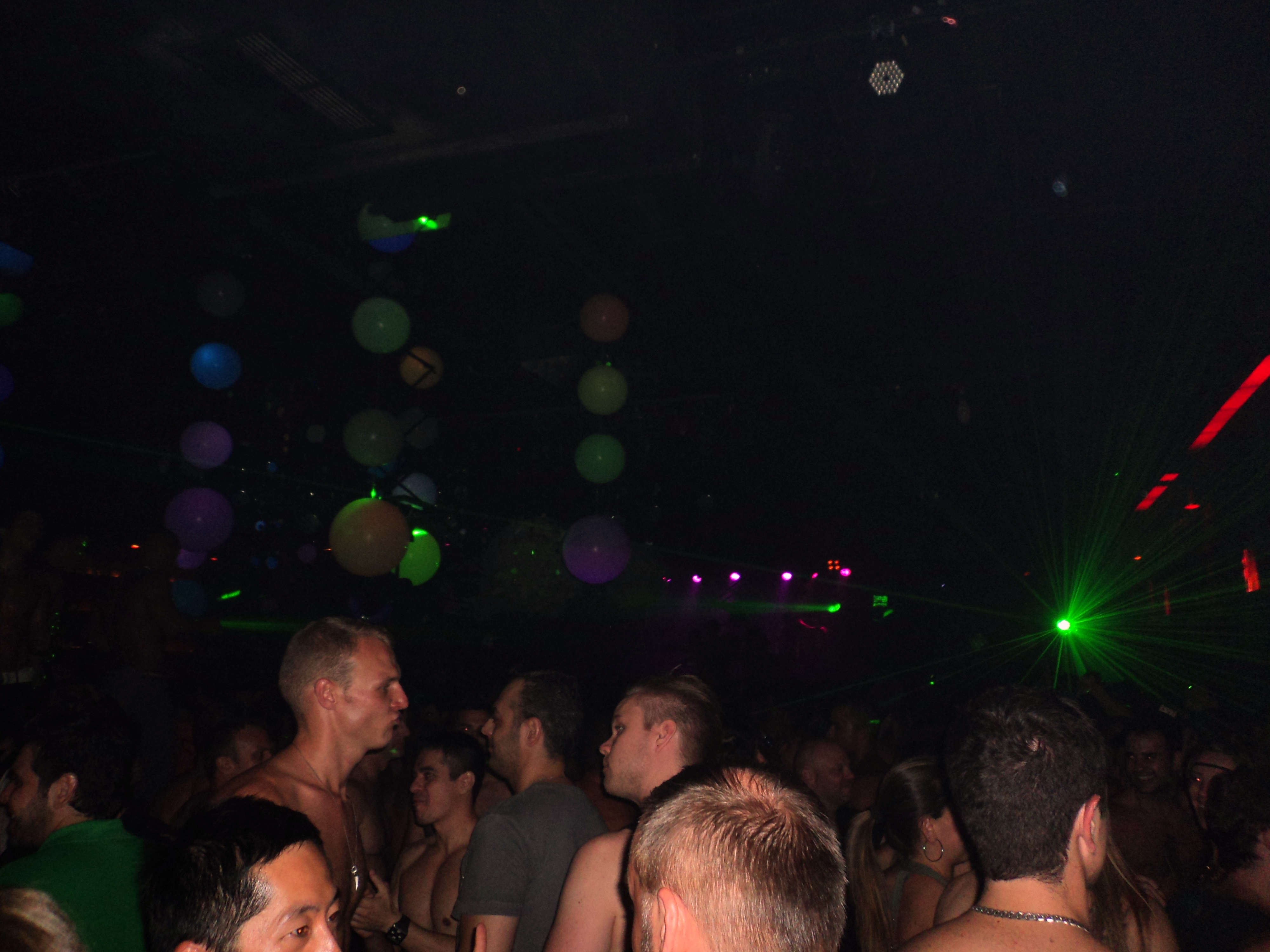 The Week International (LGBT nightclub), Rio de Janeiro, Brazil.